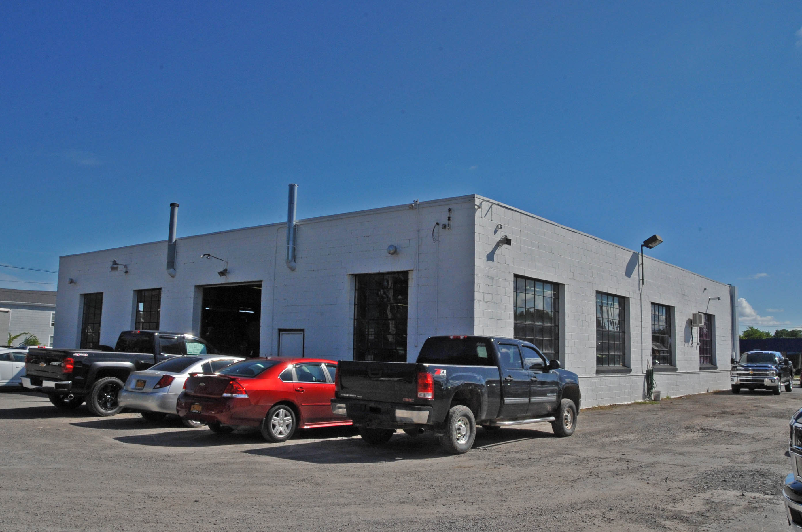 BUILT IN 1932 BUT EXTENSIVELY REMODELLED- ESPECIALLY IN THE FRONT